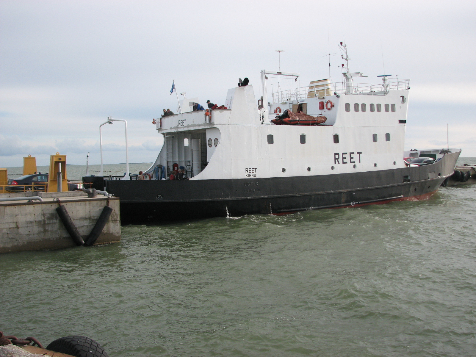 Ferry Reet IMO Number: 7120811 MMSI Number: 276529000 Callsign: ESDU Length: 37 m Beam: 9.5 m Built in 1971 by Vaagland Båtbyggeri, Vaagland, Norway, named: Oster Yard number: 82. 2002 Sold to HSD Sjø AS, Bergen, Norway, renamed Haus 2003 Sold to Kihnu Veeteed OU, Saare, Estonia, renamed Reet